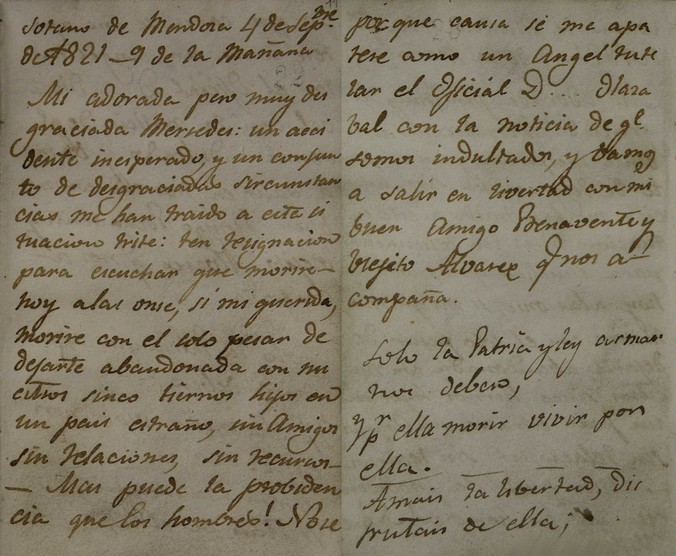 Last letter from chilean general José Miguel Carrera to his wife Mercedes Fontecilla.